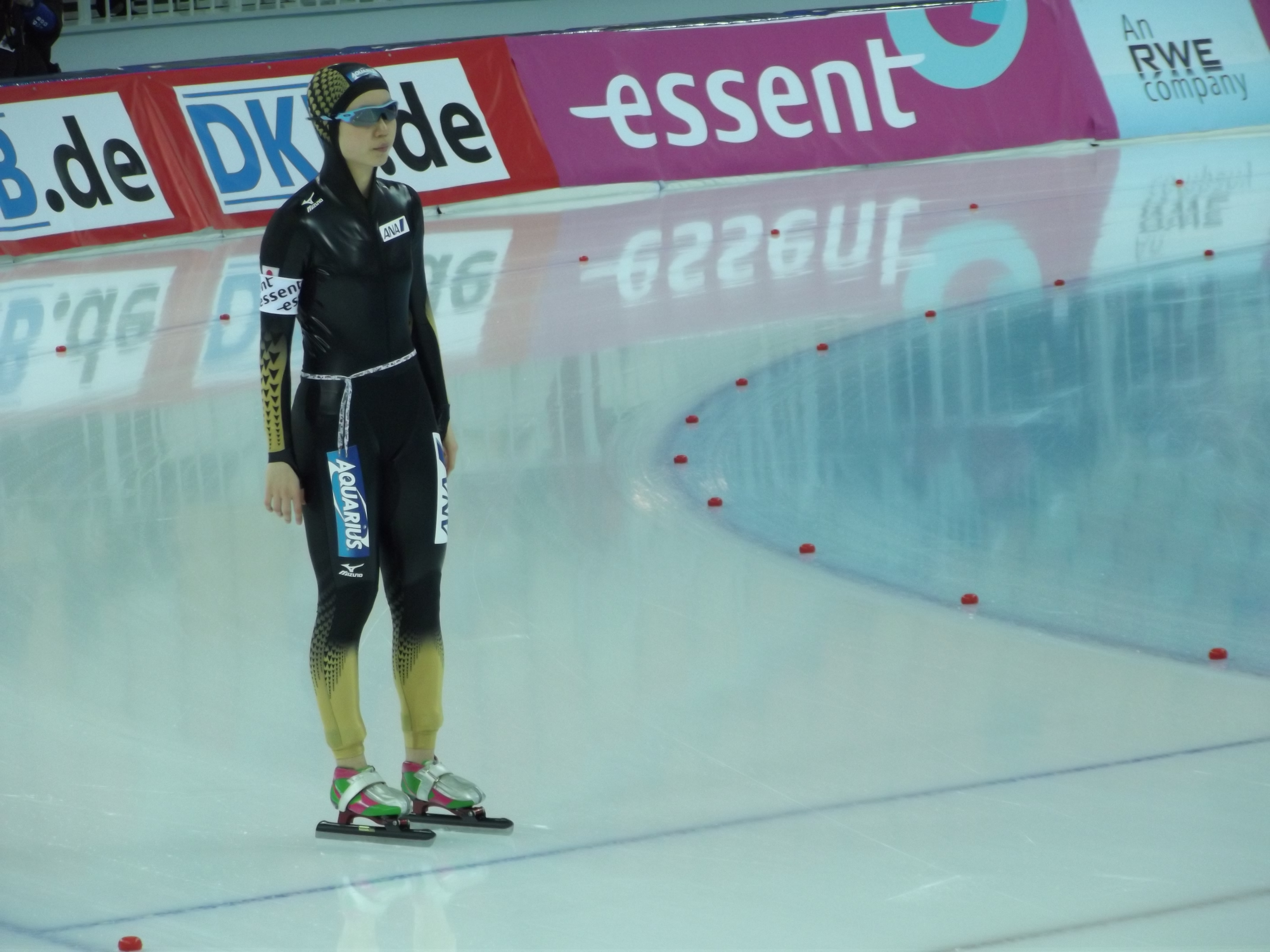 2013 World Single Distance Speed Skating Championships